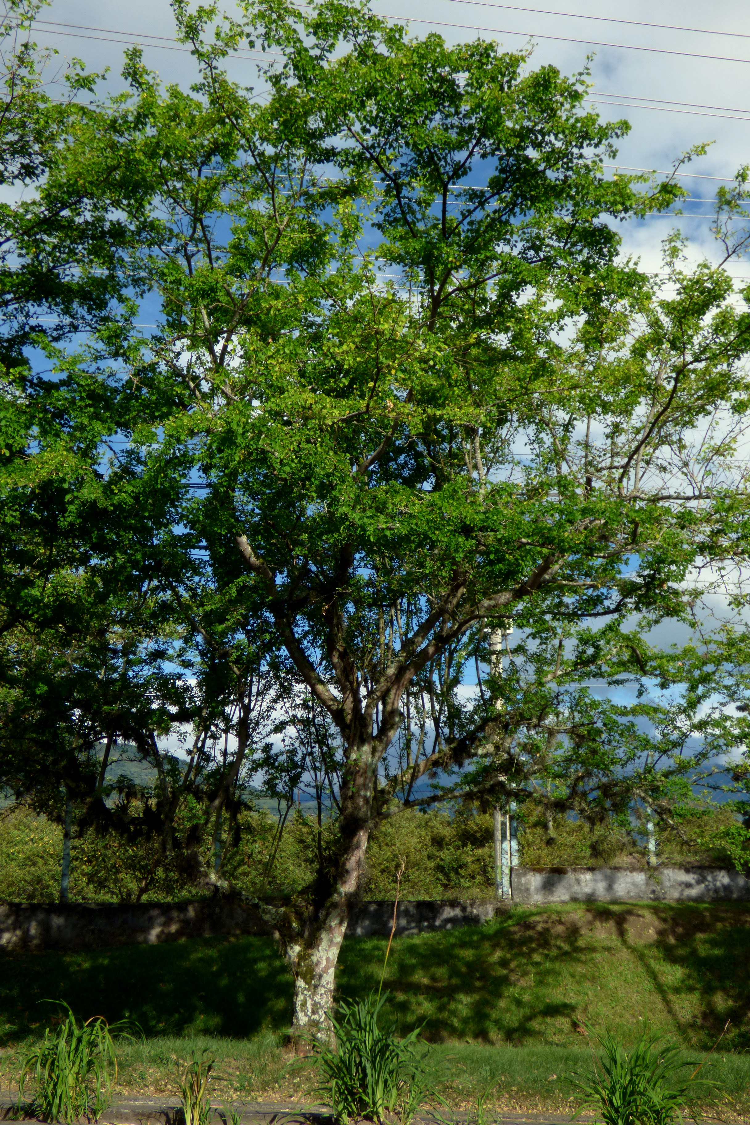 Chiminango (Pithecellobium dulce)